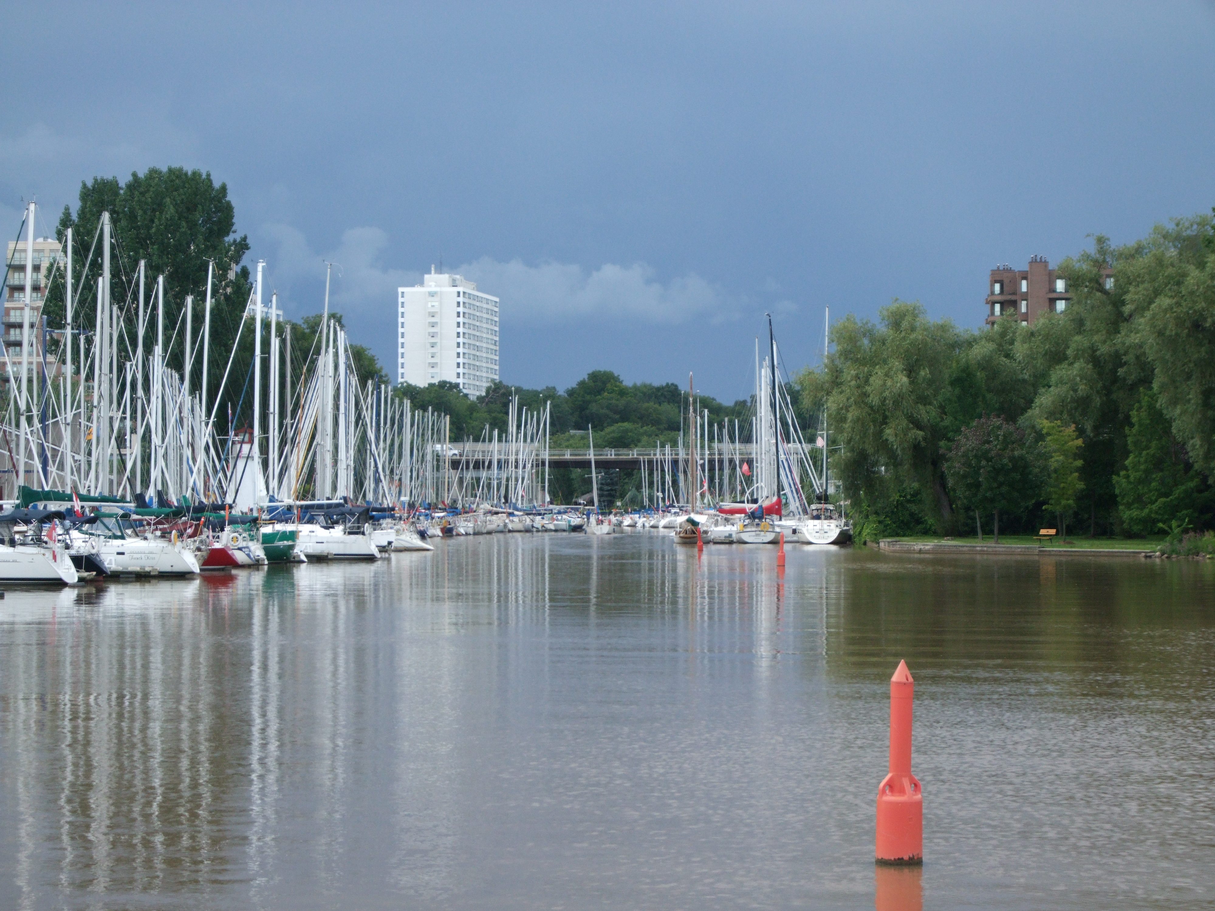 Oakville Harbour